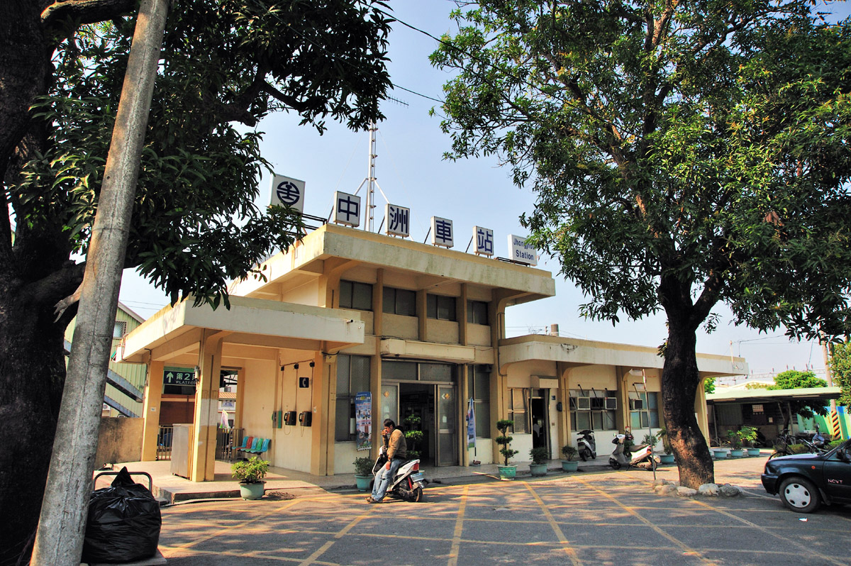 JhongJhou Station is a local train station of Taiwan's Western main rail line and Shulan Line. It locates within the boundary of RenDe Township, TaiNan County.